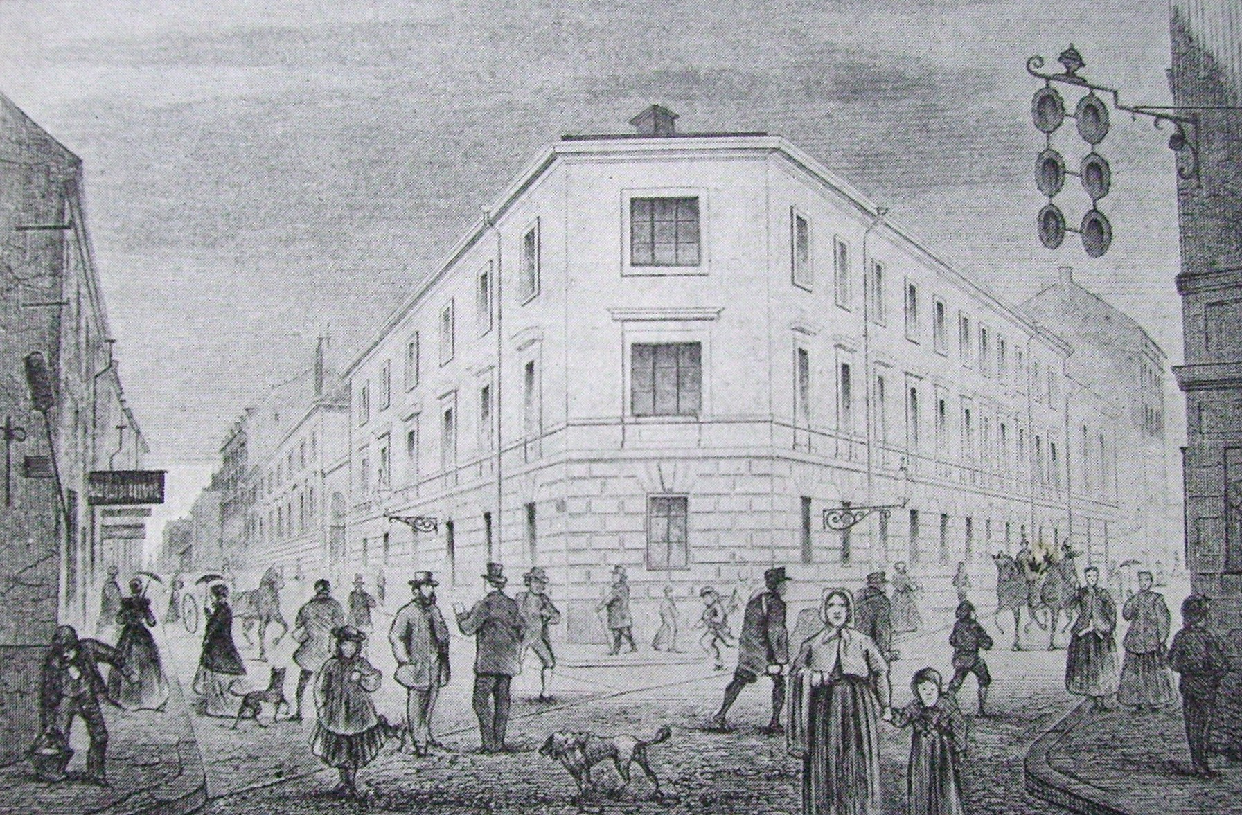 Picture of drawing of GCI in Stockholm by S. Hallbeck (1866)